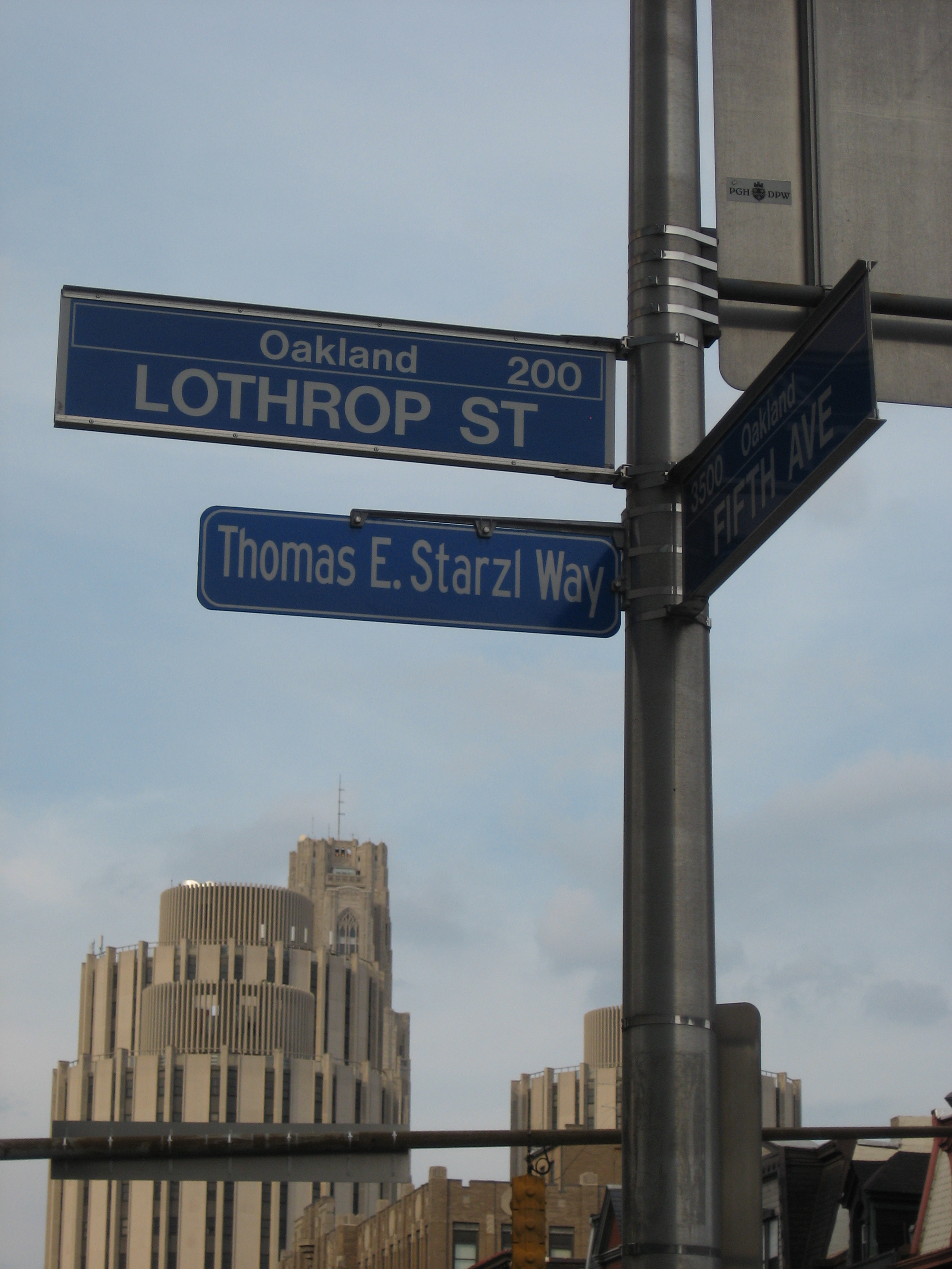 Thomas E. Starzl Way in Pittsburgh, commemorating organ transplant pioneer Thomas Starzl, of the University of Pittsburgh. The Litchfield Towers and Cathedral of Learning are visible in the background. 40°26′28.2″N 79°57′34.2″W / 40.441167°N 79.9595°W